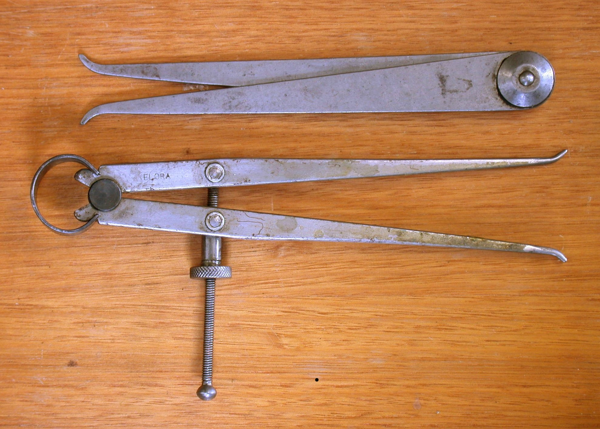 Two styles of inside calipers. Used to measure or compare sizes of objects.